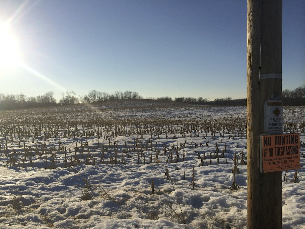 The Geohash is up on the hill in the field. Orange sign of death to the adventure and no farmer in sight.